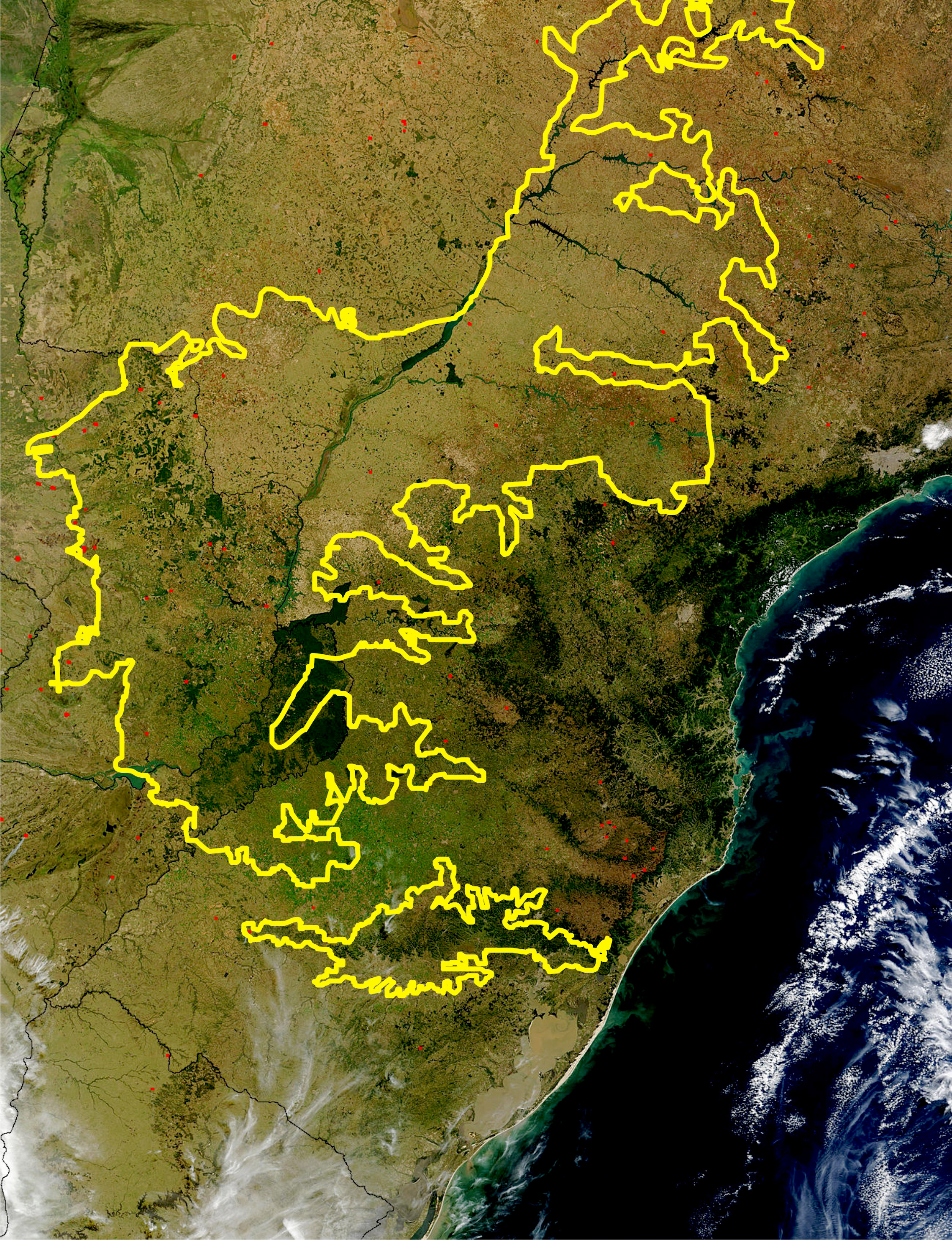 Alto Paraná Atlantic forest ecoregion. The yellow line encloses Alto Paraná Atlantic forest as delineated by the World Wide Fund for Nature. I, Miguelrangeljr, made it using NASA Blue Marble imagery.